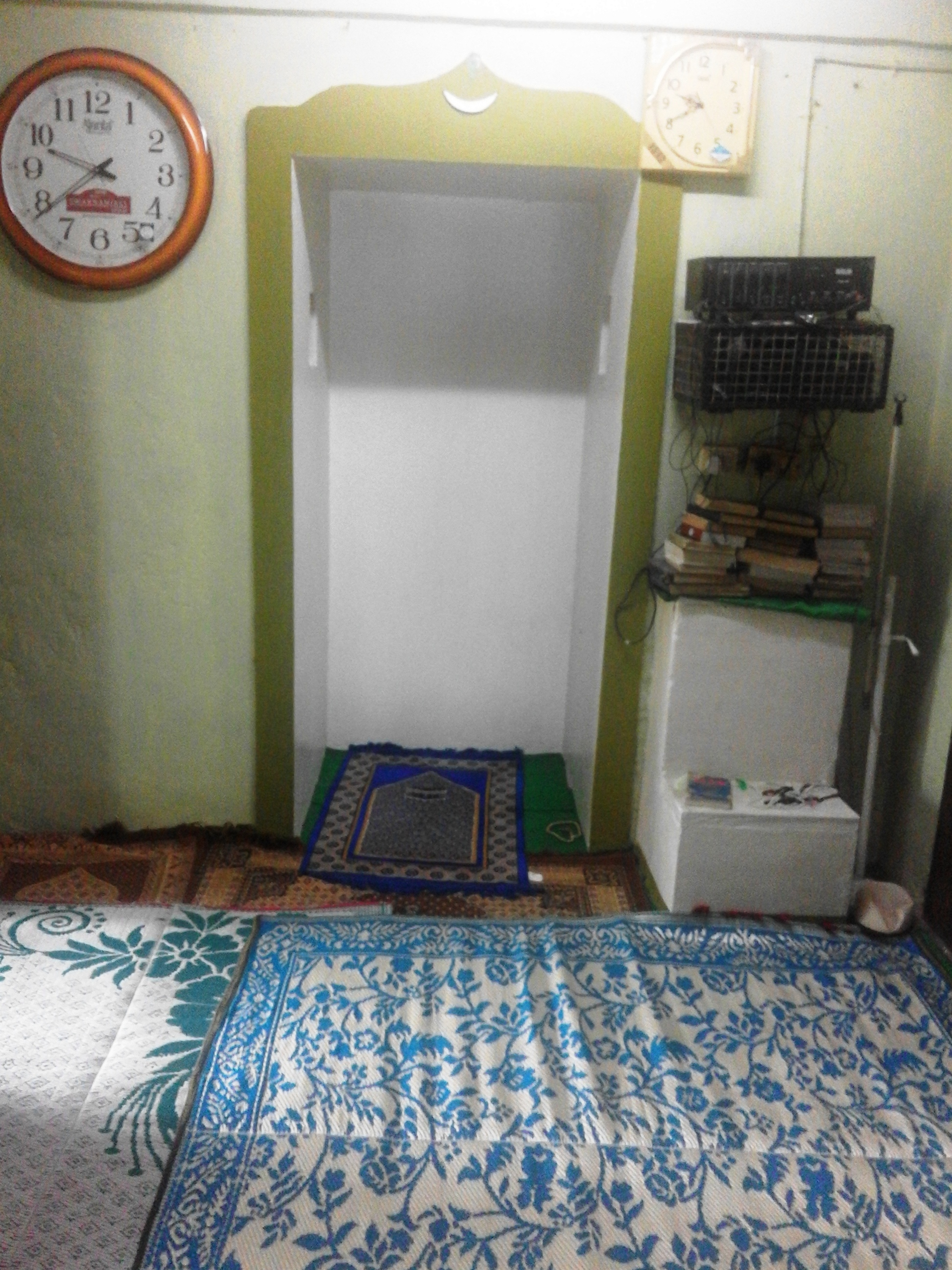 300 year old Panamaram Thazhe Srambia, Wayanad district, Kerala state, India. A Srambia is a small wooden mosque of olden times. This inner mosque is just big enough for ten people to pray